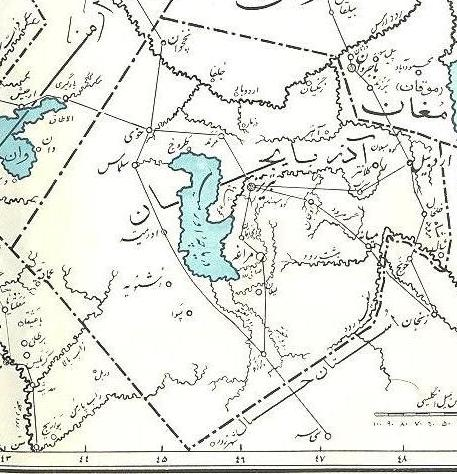 Azerbajan in Abbasid Caliphate